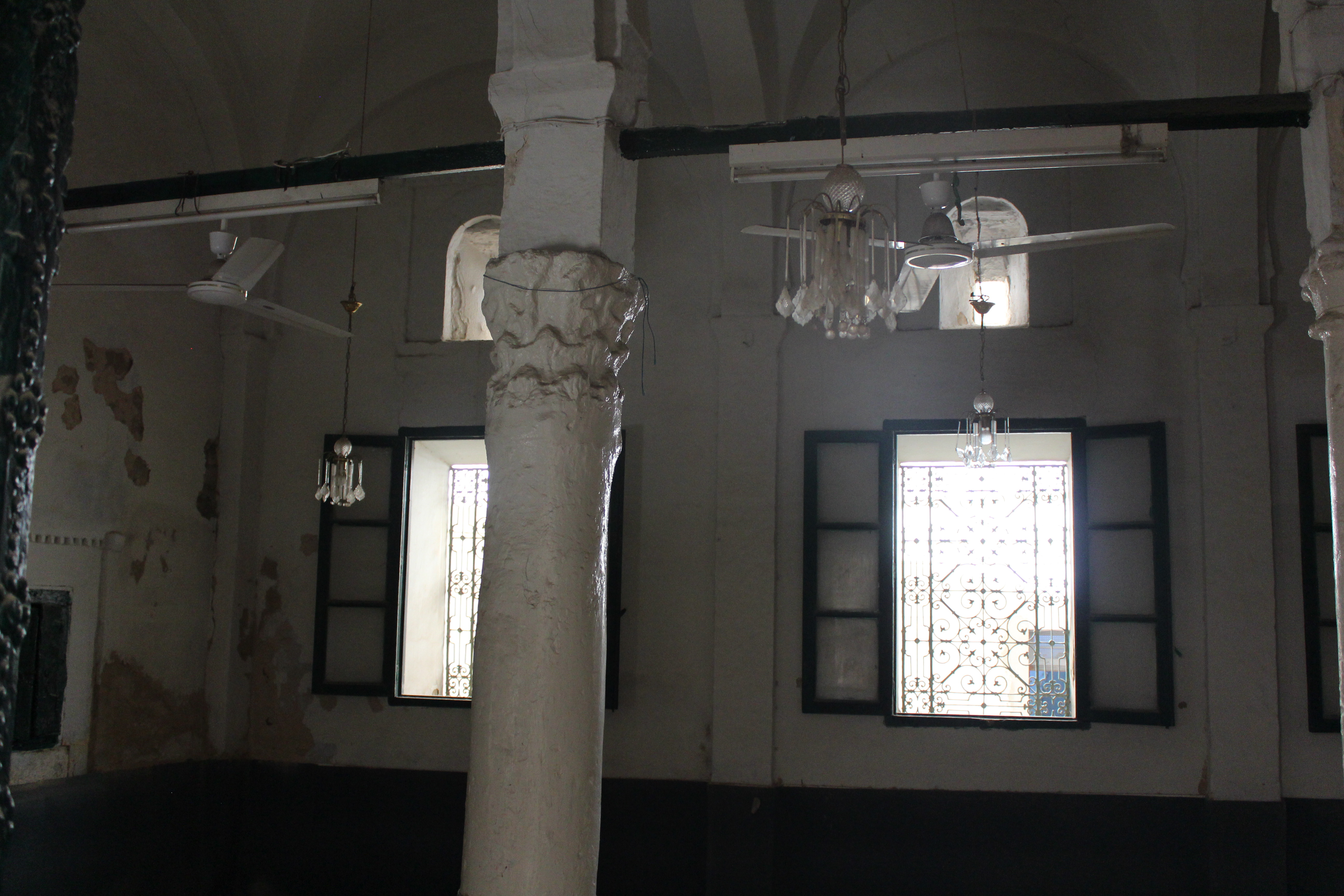 Prayer room in Sidi Ali Ennouri mausoleum